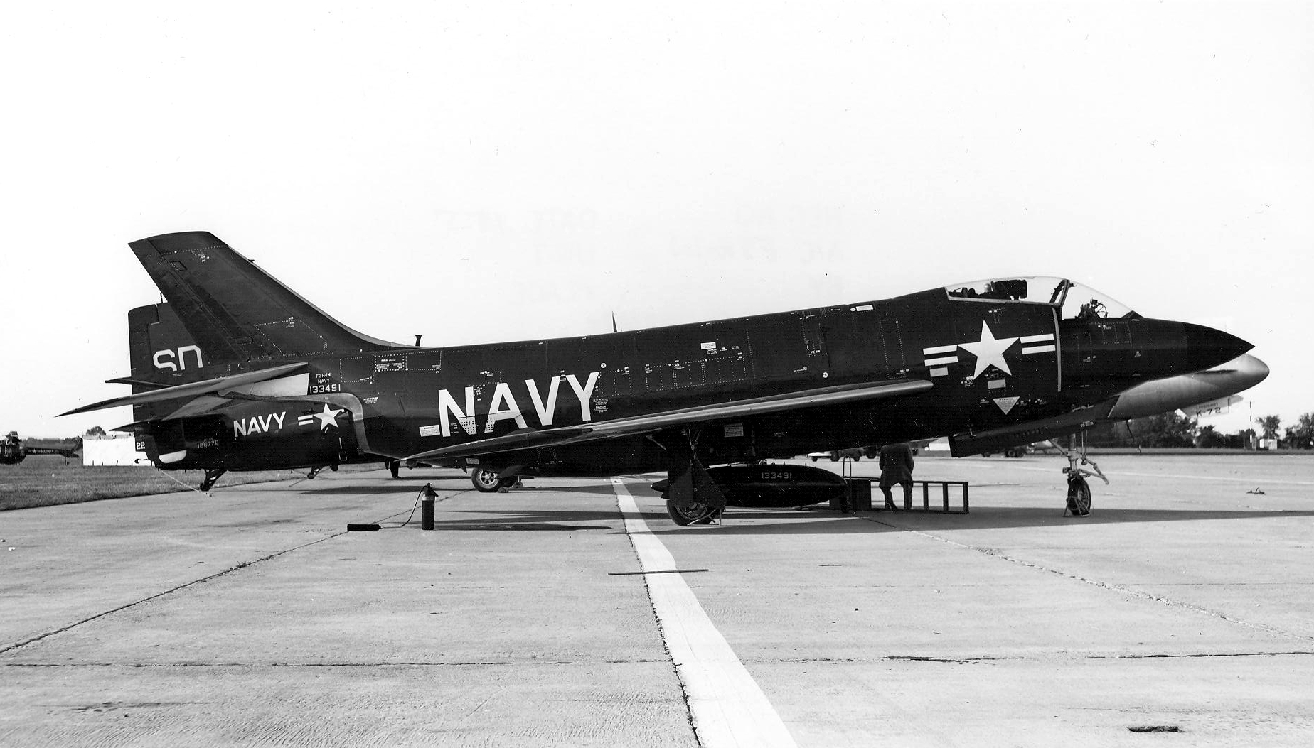 A U.S. Navy McDonnell F3H-1N Demon (BuNo 133491), in 1955. The F3H-1 was ordered before it s first flight to counter the Soviet MiG-15. However, only 58 aircraft were built and most never flew, because the Westinghouse J40 engine. The aircraft was seriously underpowered and the J40 was prone to inflight explosions and sudden failures. All F3H-1Ns were permanently grounded in July 1955 and the surviving airframes were either used as ground trainers or scrapped. 133491 crashed during a test flight on 1 November 1954.